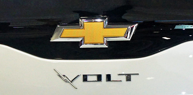 2017 Chevrolet Volt badge (second generation). 2017 Washington Auto Show, D.C., U.S.